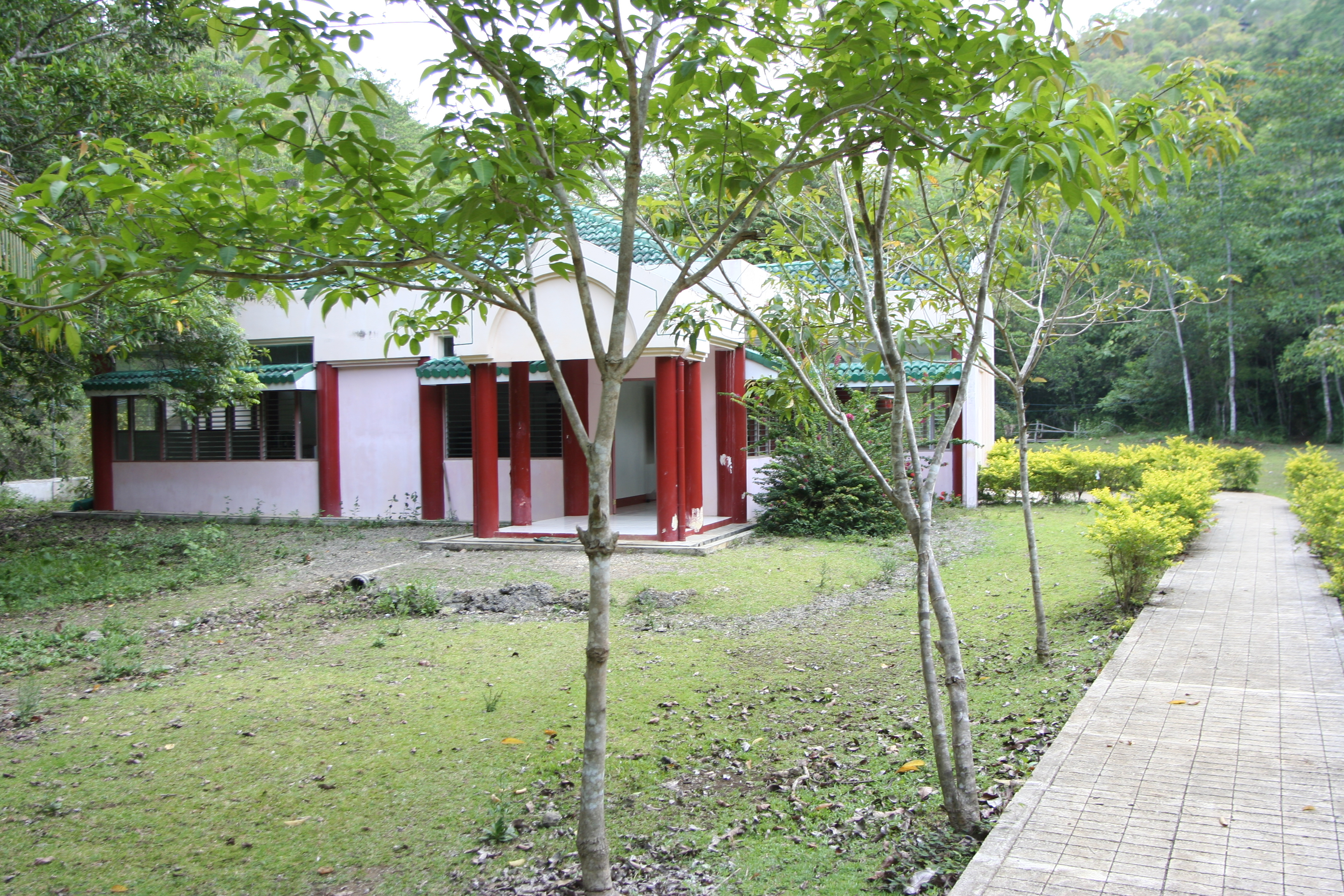 The Visitor's Center of the Philippine Tarsier Foundation in Corella, Bohol, The Philippines.